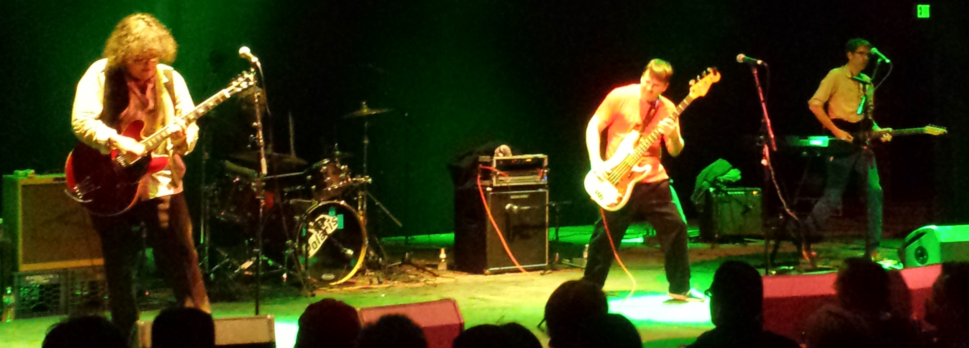 Polaris in concert at College Street Music Hall in New Haven, Connecticut, USA. Left to right: Muggy, Harris, Jersey, Penny